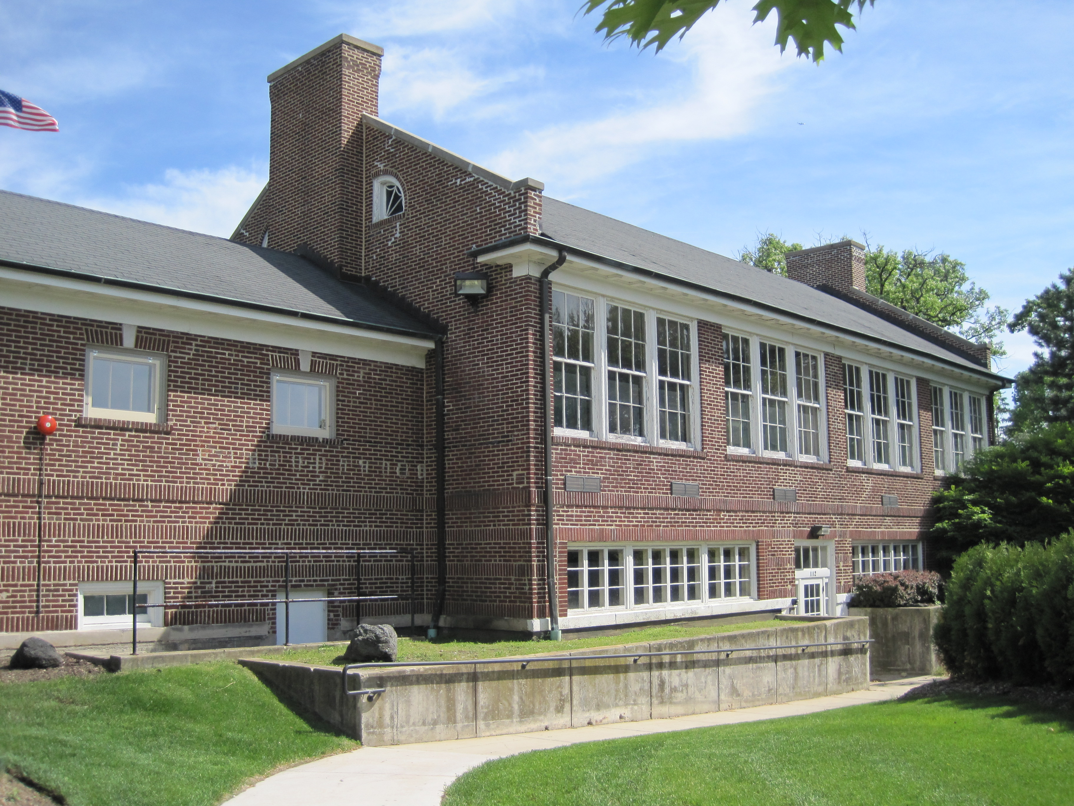 I (Teemu08 (talk)) took this image on May 27, 2011